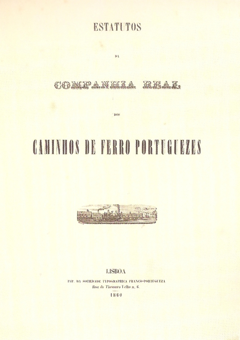 Cover of the first Statues of the CRCFP - Companhia Real dos Caminhos de Ferro Portugueses (Royal Company of the Portuguese Railways), in 1860.